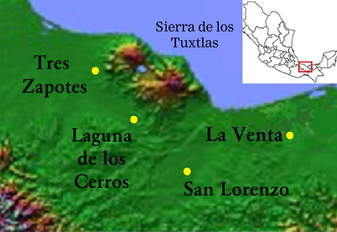 Map of major Olmec archaeological sites